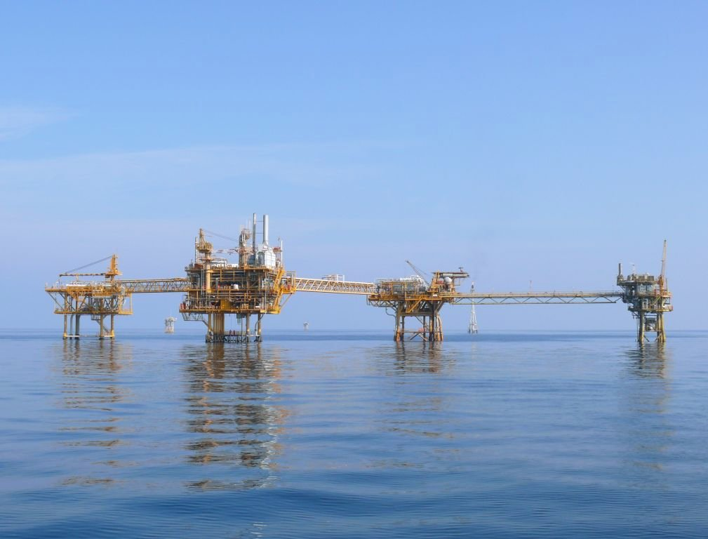 Mubarak Offshore Platform, United Arab Emirates. The rig is owned by Crescent Petroleum